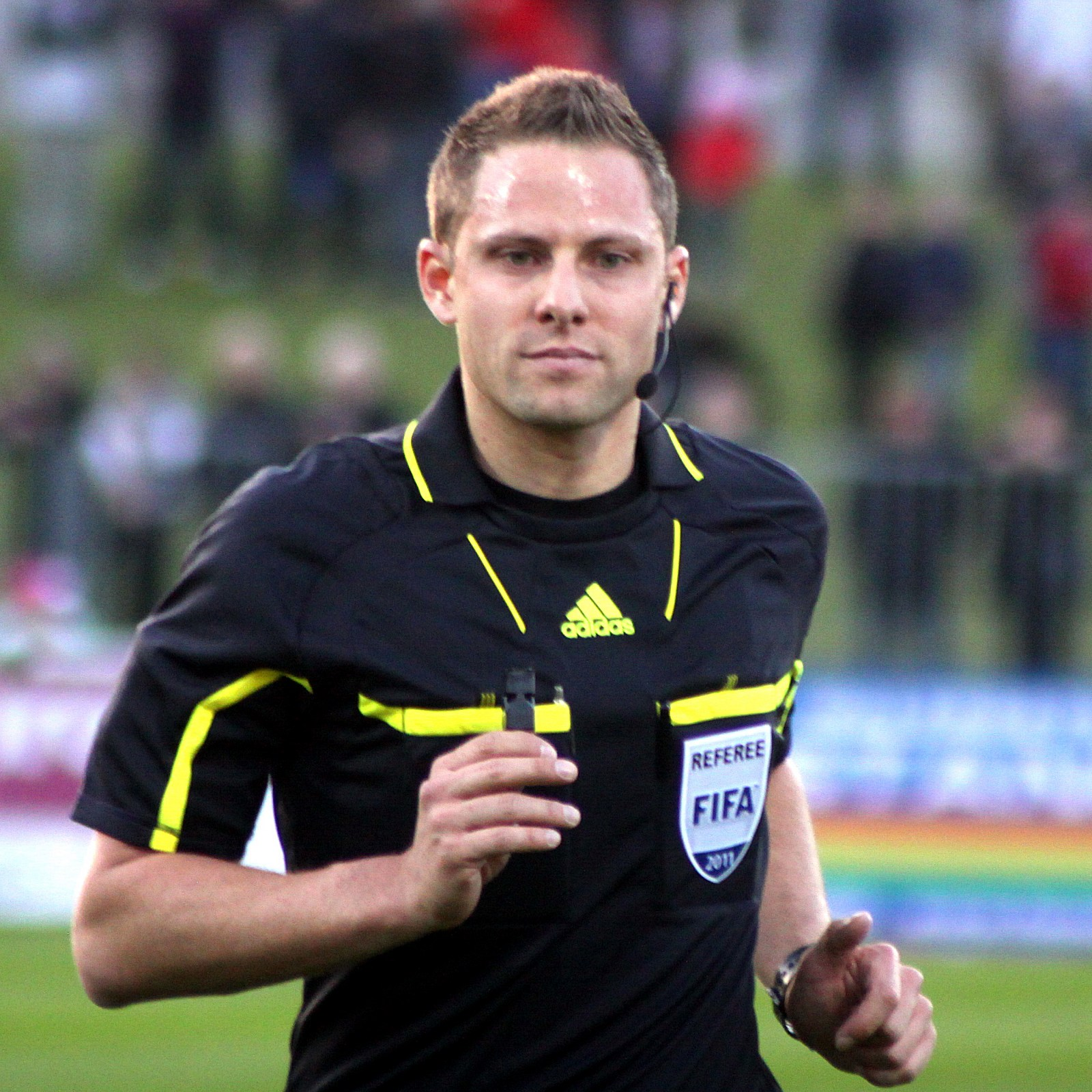 Harald Lechner, Referee of Austria